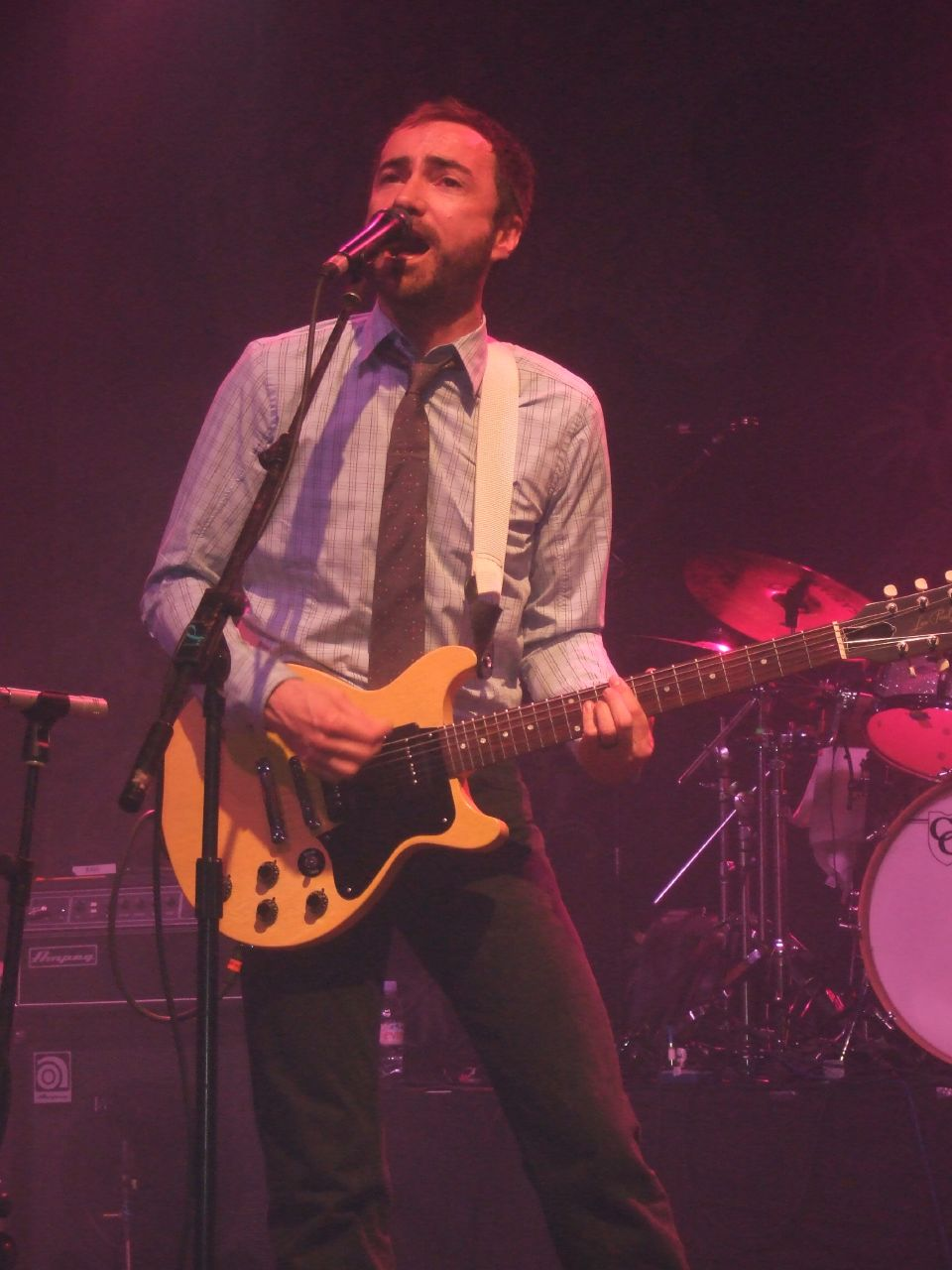 The Shins performing at London Forum on March 28, 2007.